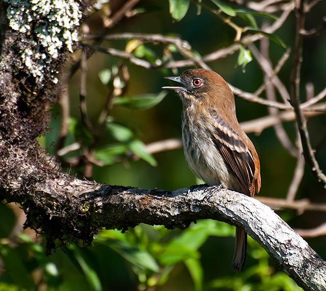 A female Blue-billed Black Tyrant in Extrema, Minas Gerais, Brazil.